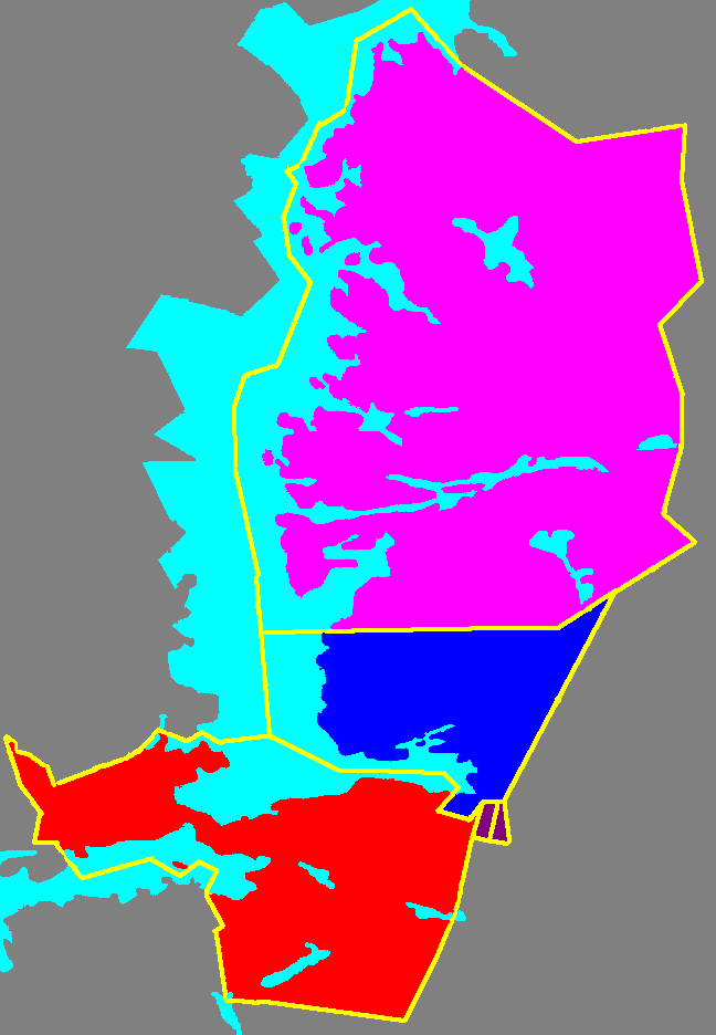 Tampere borders 1966–1990s. (Sources:[1] & Iltanen, Jussi, 2004, Urbes Finlandiae, Suomen kaupunkien historiallinen kartasto, Genimap Oy, ISBN 951-593-915-1